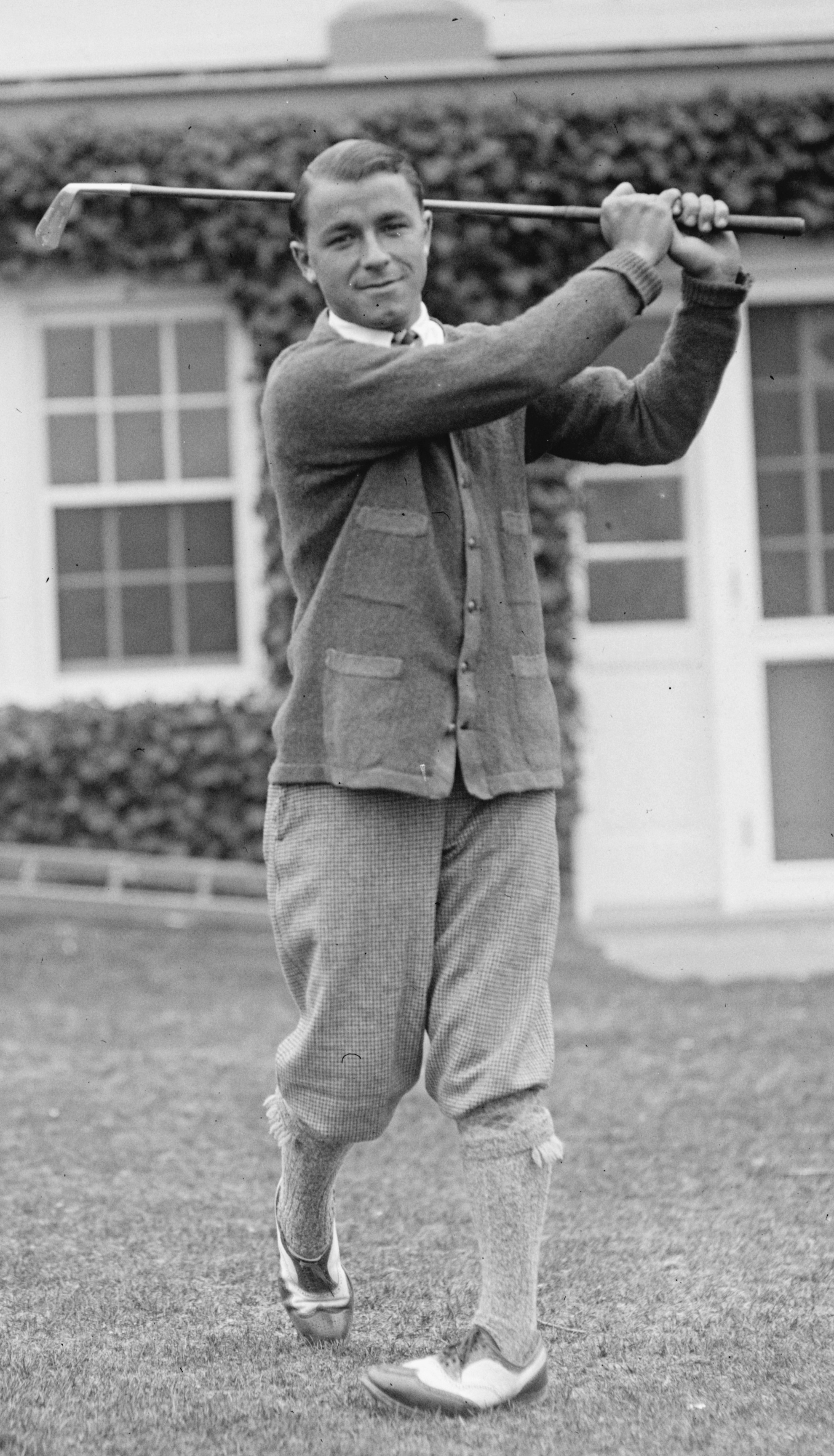 Title: Gene Sarazen Abstract/medium: National Photo Company Collection (Library of Congress) Physical description: 1 negative